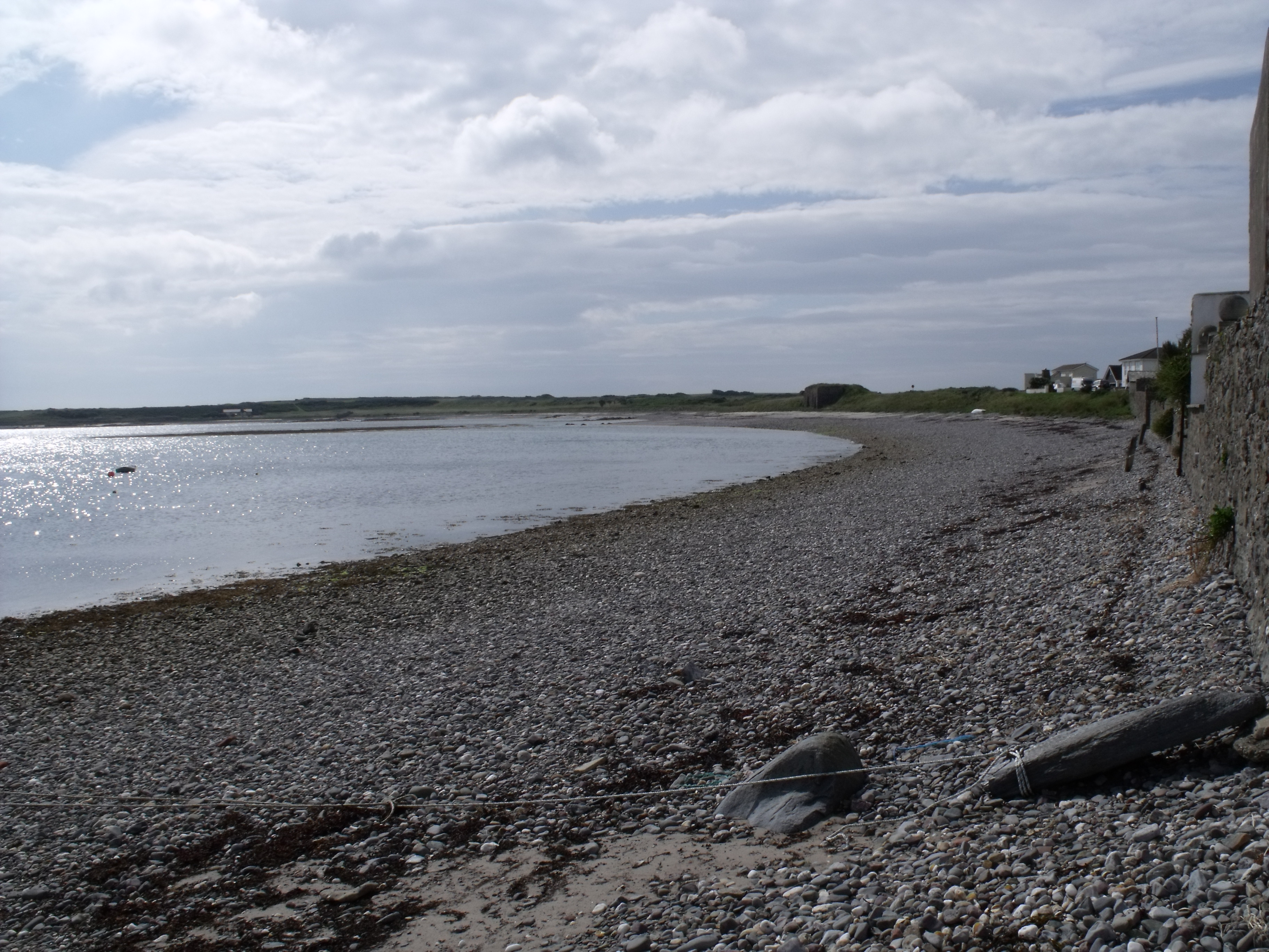 Derbyhaven, Isle of Man